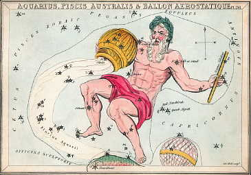 In illustrations, the brightest stars of Aquarius are represented as the figure of a man, while the fainter naked eye stars are represented as a vessel from which is pouring a stream of water. The water flows southwards into the mouth of the southern fish, Piscis Austrinus.